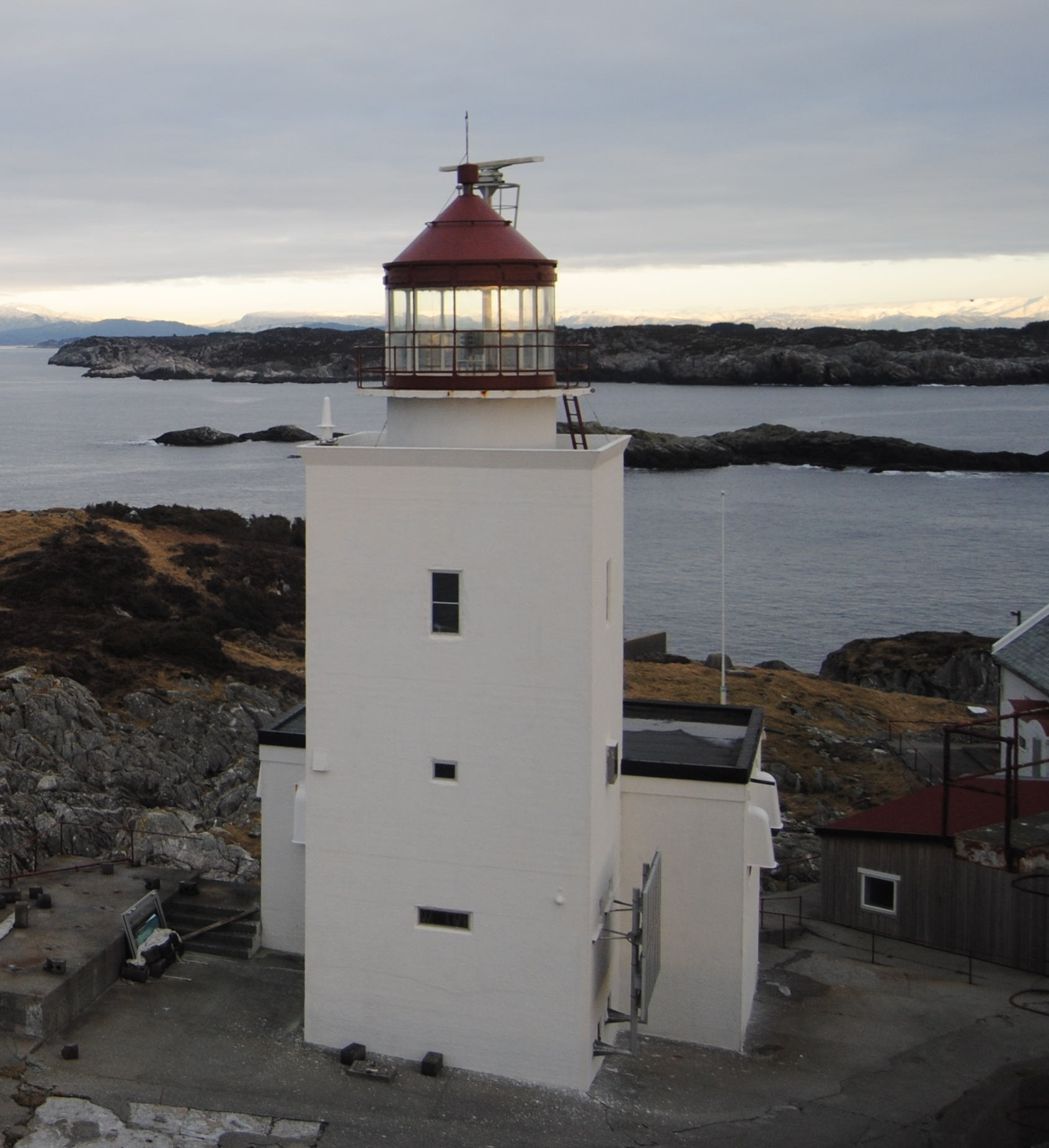 Marstein Lighthouse, main tower